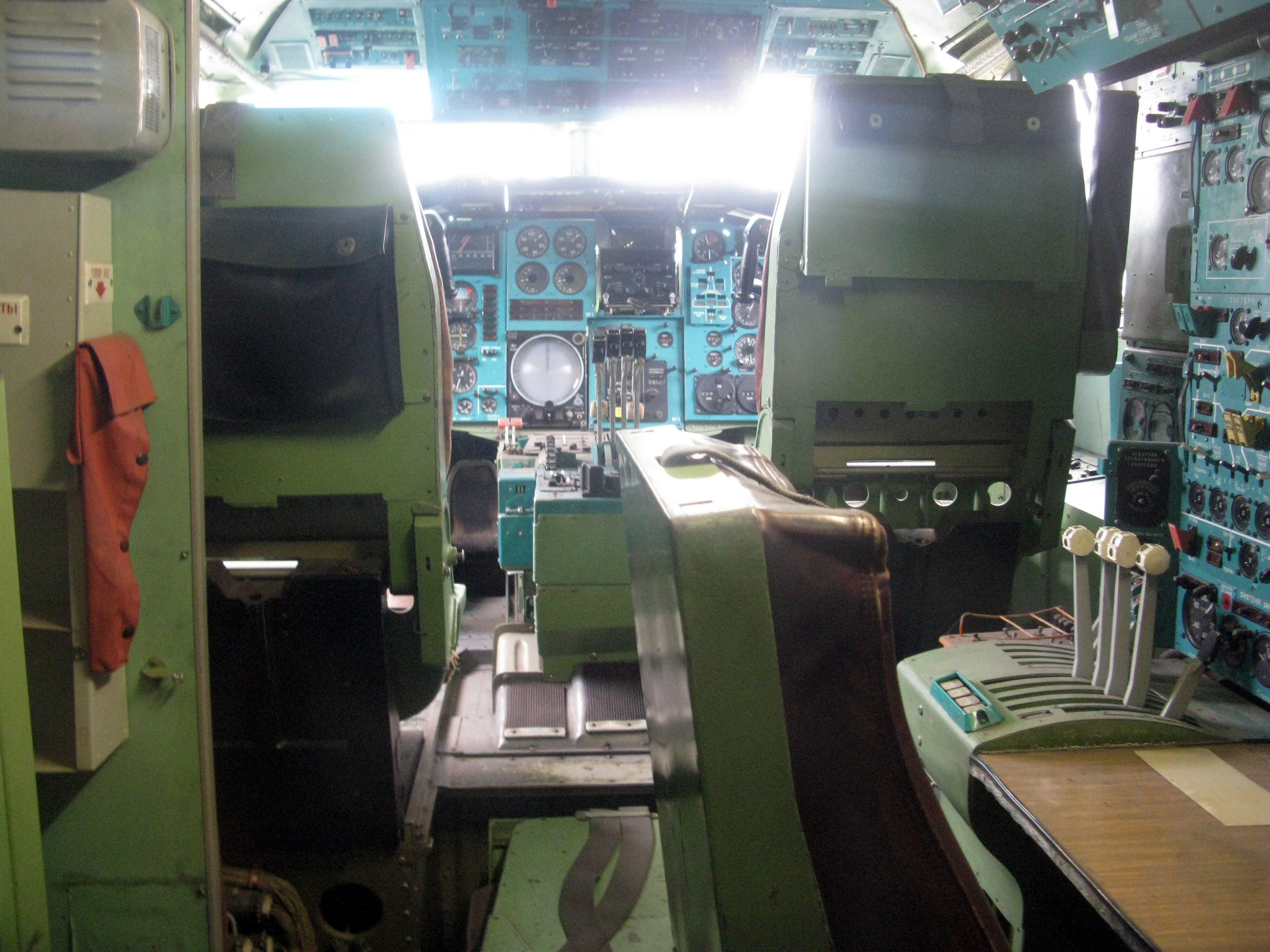 Cockpit of the Tupolev Tu-144 in the Technikmuseum Sinsheim